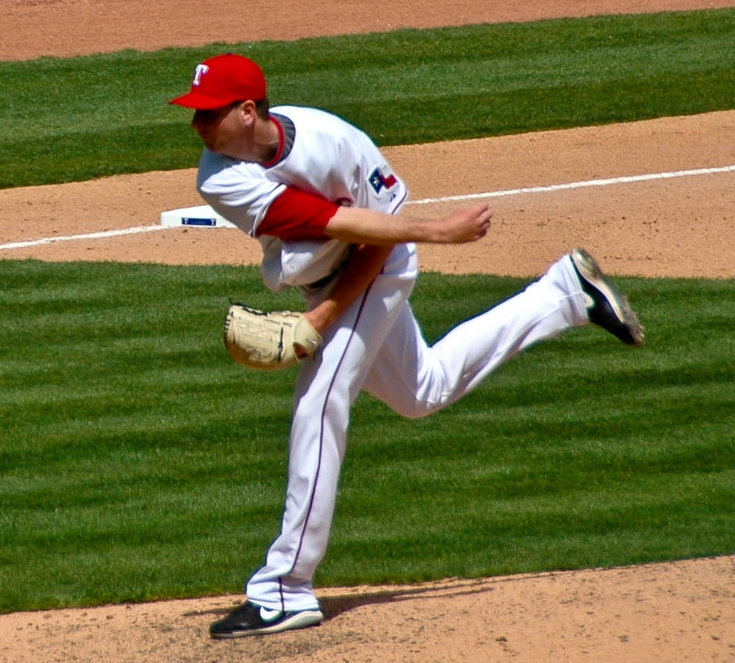 Scott Feldman pitching on April 9, 2009